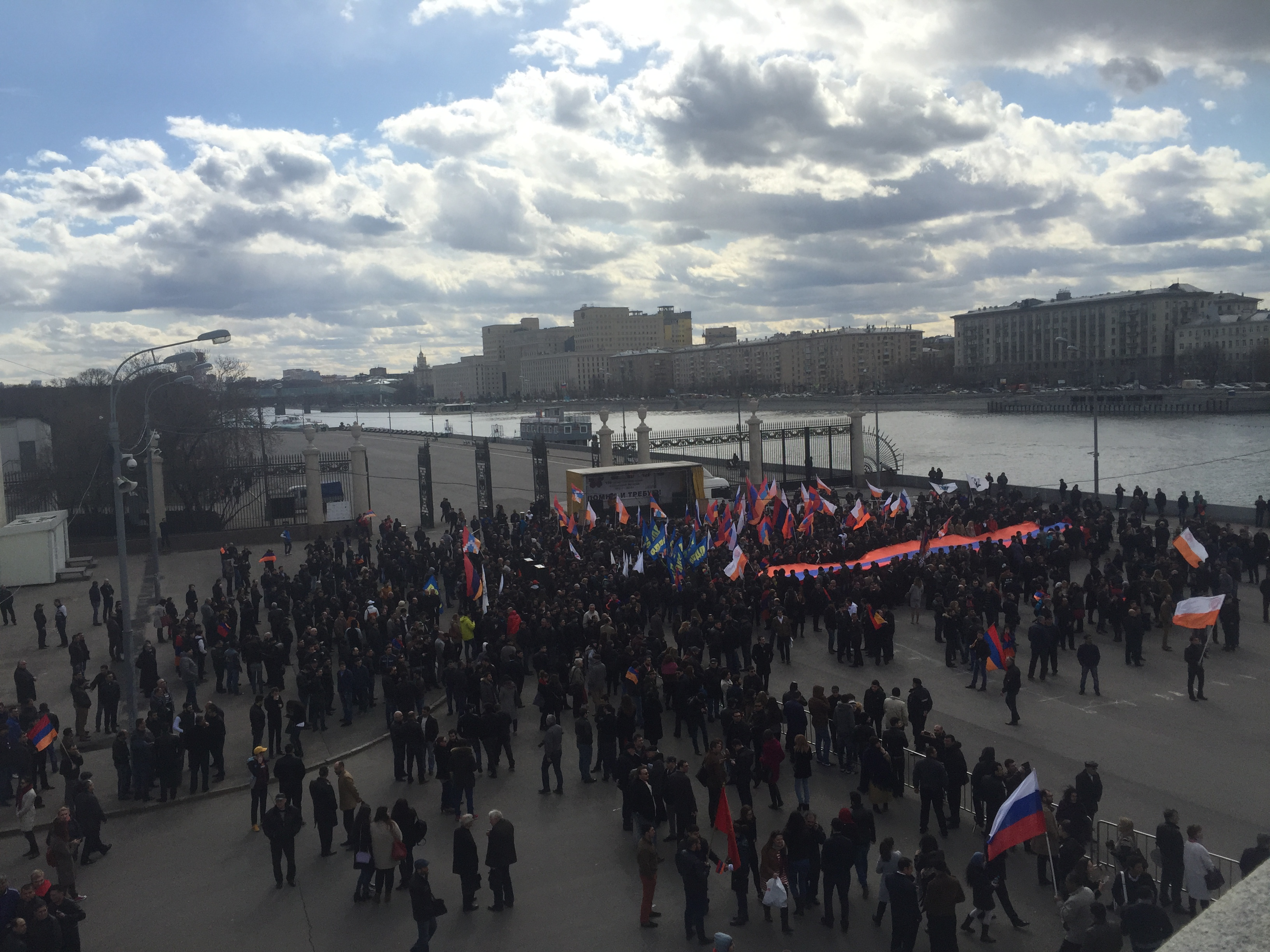 Protests organized by Armenian Youth Congress of Russia (AYCR) against Armenian Genocide denial and in Memory of 1915 Victims.